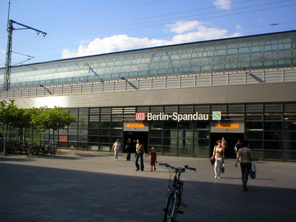 Entrance to Berlin's train station Spandau